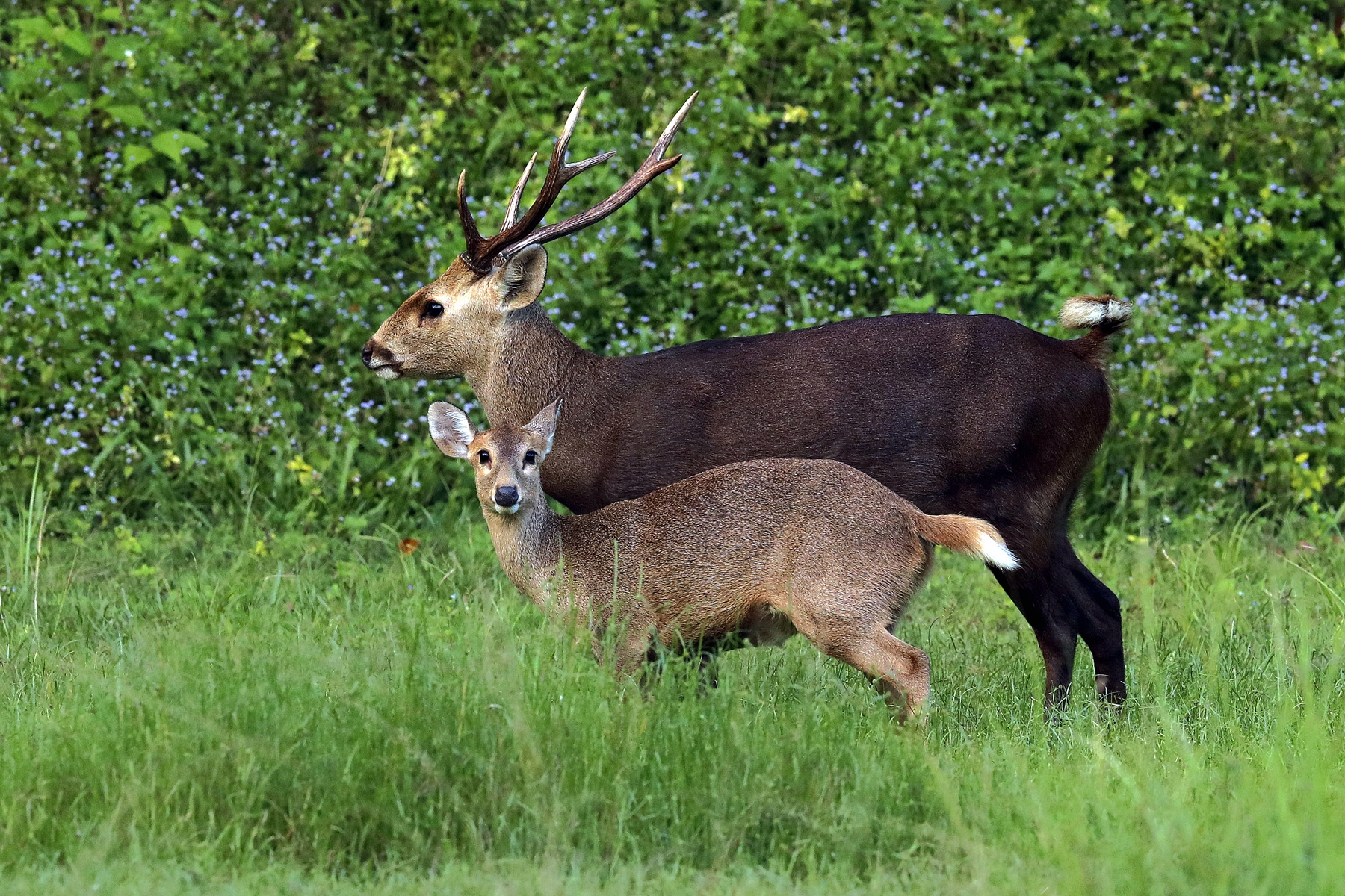 水鹿 Sambar deer (Rusa unicolor), Huai Kha Khaeng Wildlife Sanctuary, 28 Oct. 2017